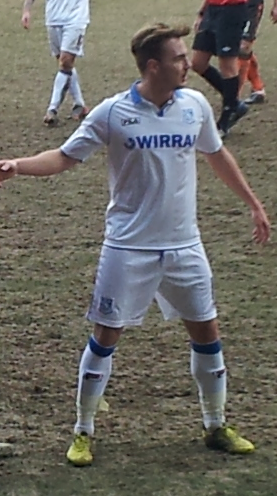 Adam McGurk playing for Tranmere Rovers on 29 March 2013.